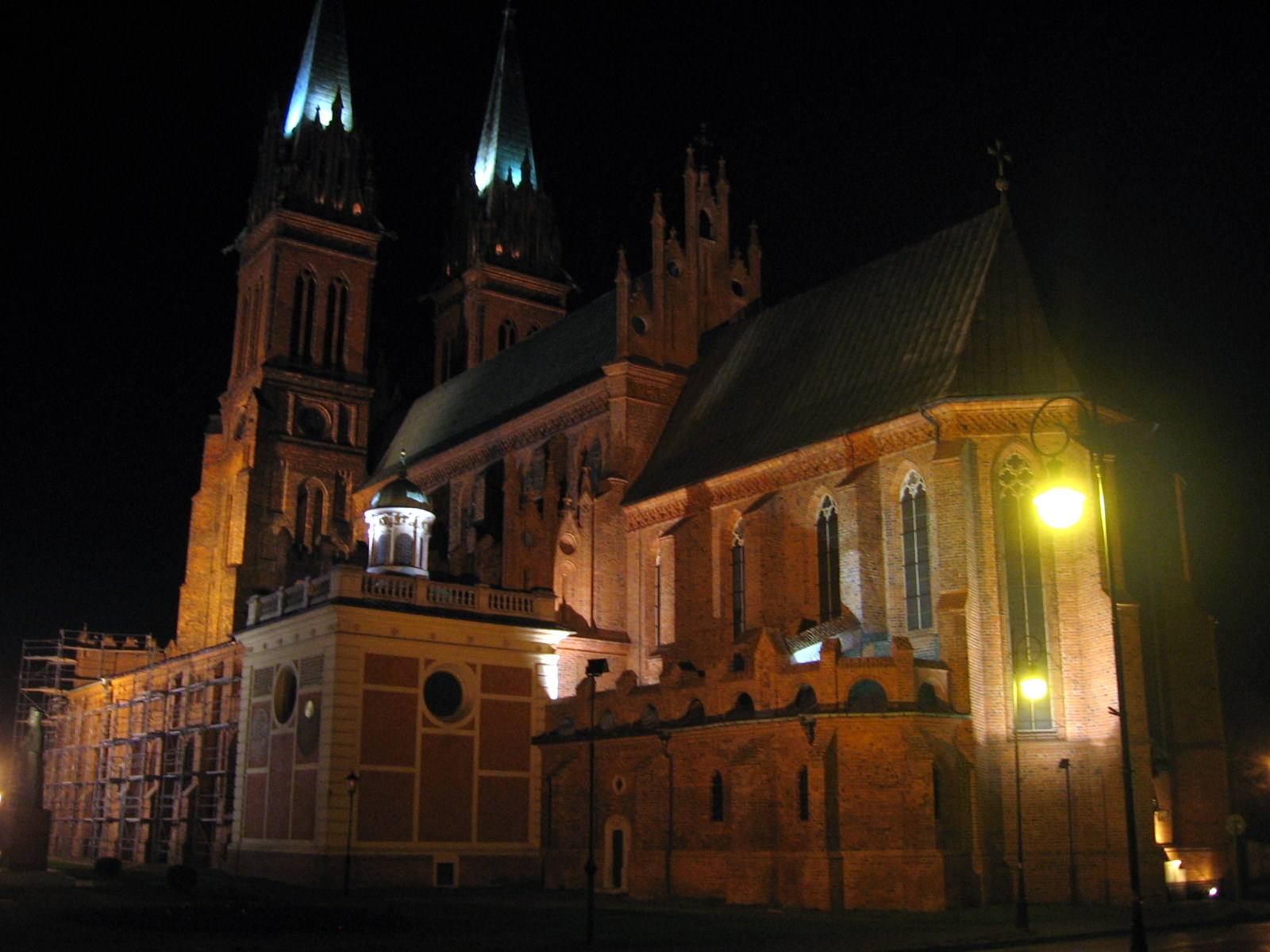 Cathedral in Wloclawek